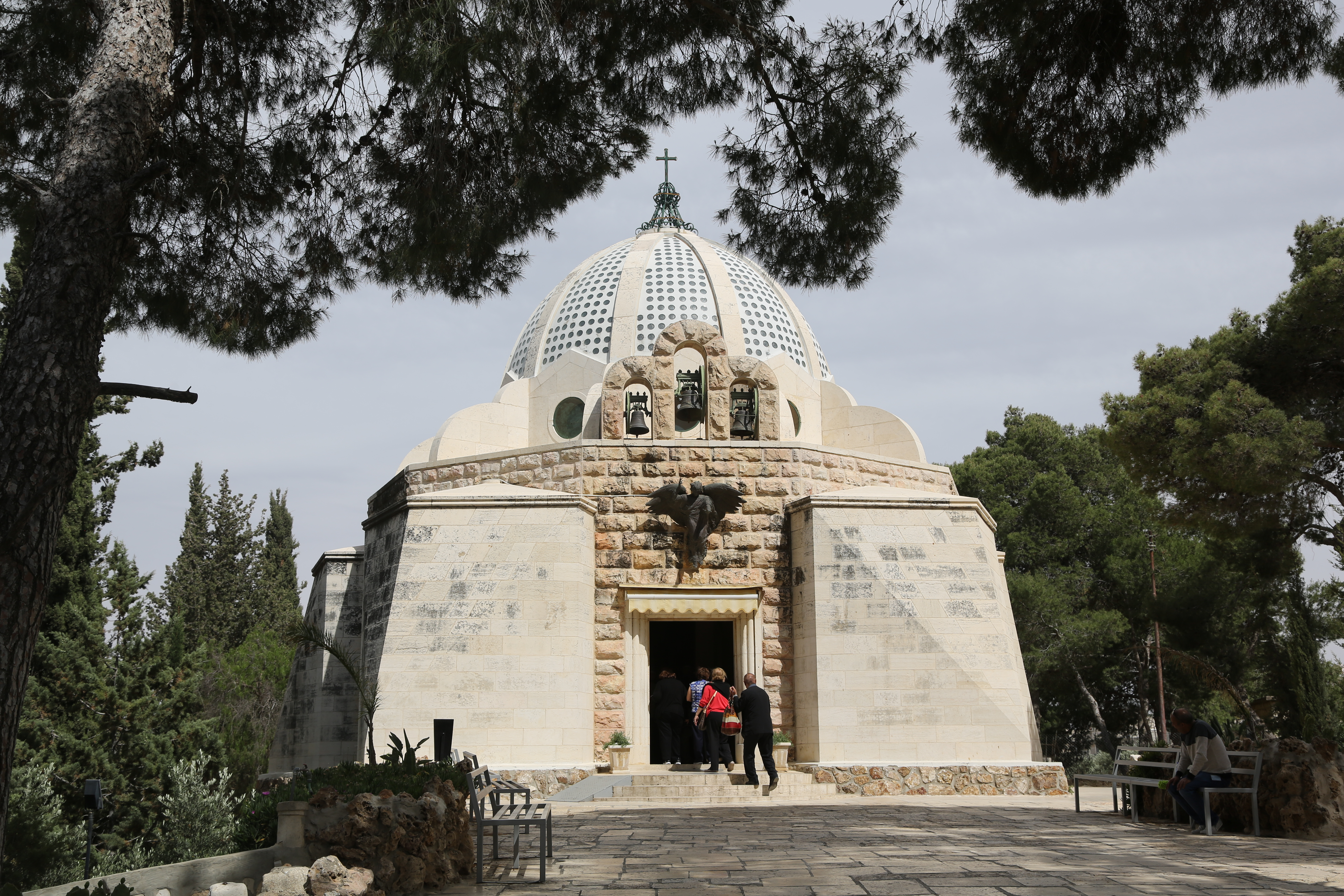 "Gloria in Excelsis Deo" Chapel (1953, Antonio Barluzzi), Sijar al-Ghanam.